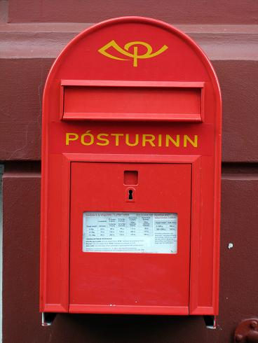 A photograph of an Icelandic post box. Created by David Lubley, used with permission.